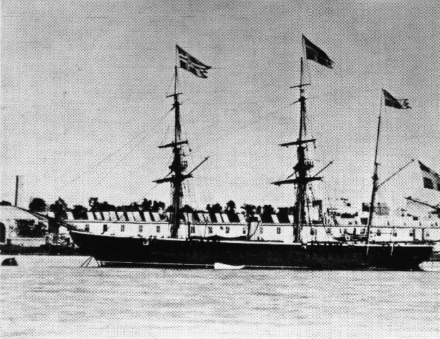 A picture of the Swedish steamcorvette HMS Gefle, in Montevideo, Uruguay sometime in the late 19th century.